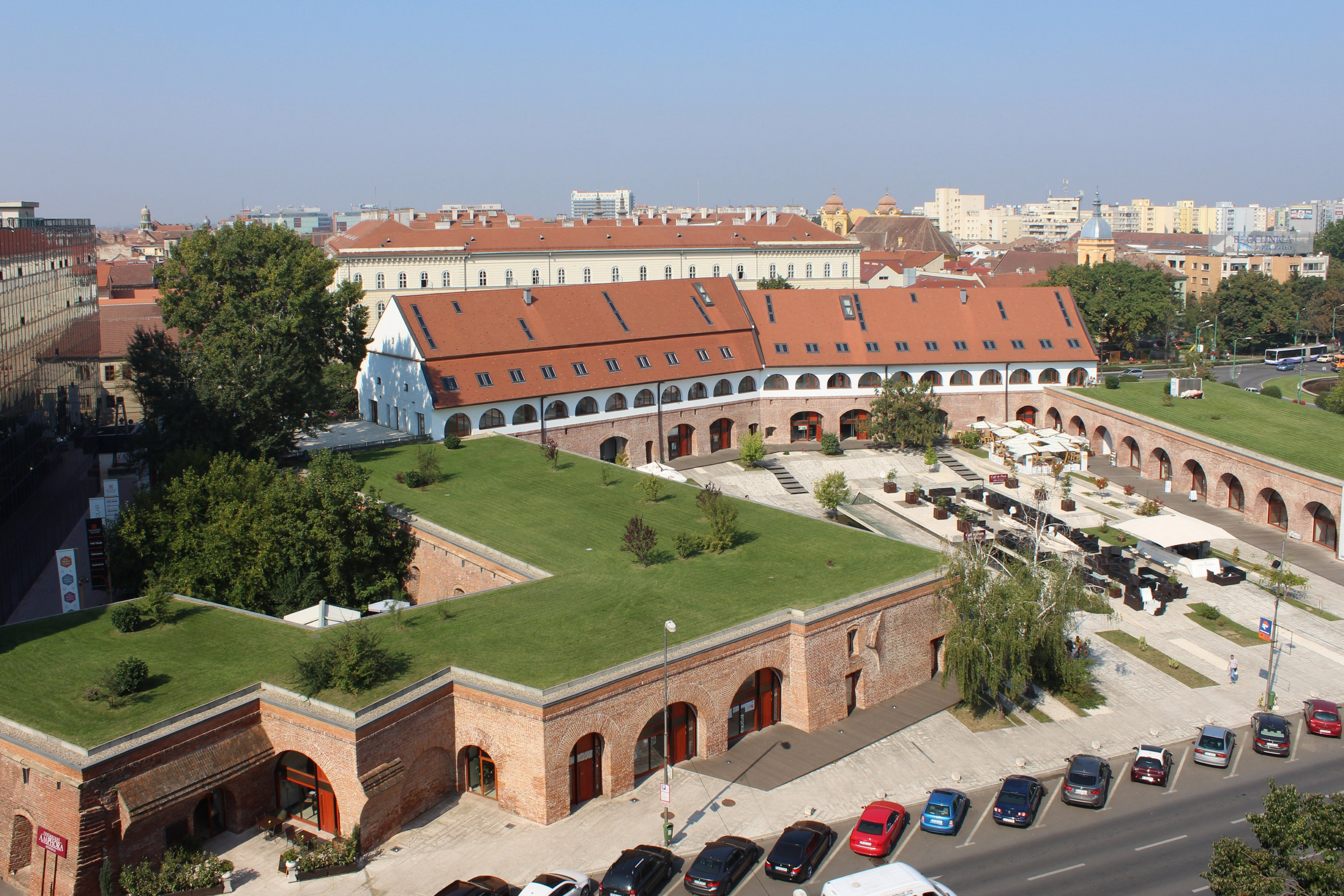 Theresia Bastion, corps A, B, C, E, Timisoara, Romania